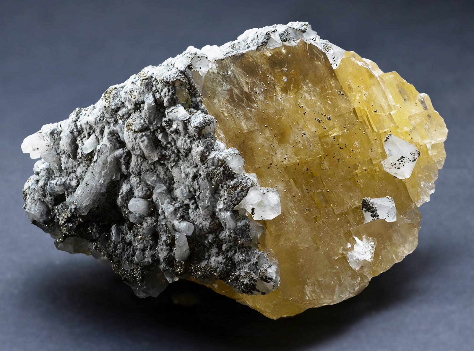 Fluorite (yellow), calcite (white/grey) and pyrite (gold specs), El Hammon Mine, Morocco Camera data Camera Canon EOS 400D Lens Canon EF 70-200mm f4L w/ 12mm extension tube Flash Shoot through umbrella above Focal length mm Aperture f/11 Exposure time 1/160 s Sensivity ISO 100